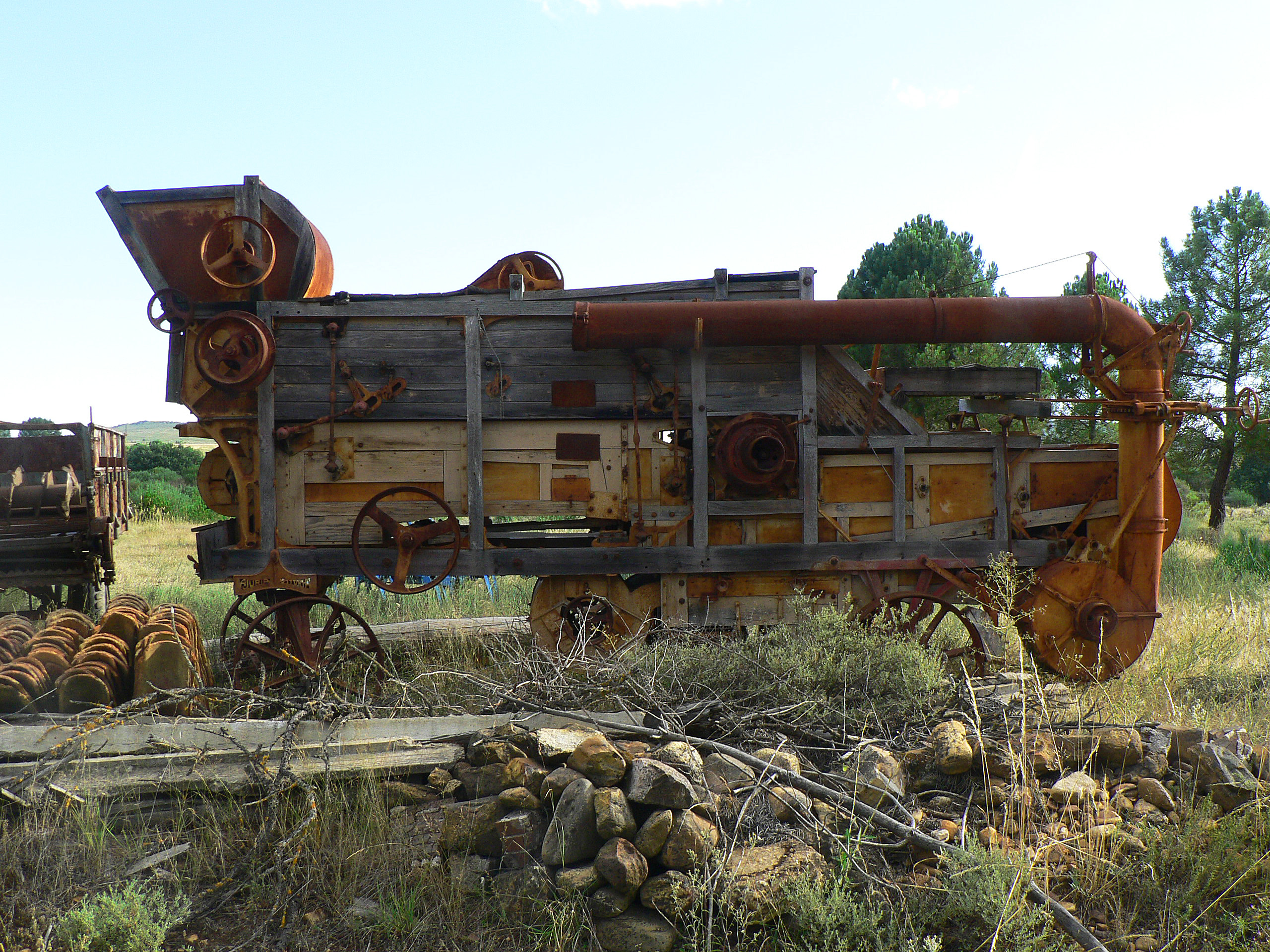 And old threshing machine (for cleaning grain), at the spanish village of Nogarejas, province of León